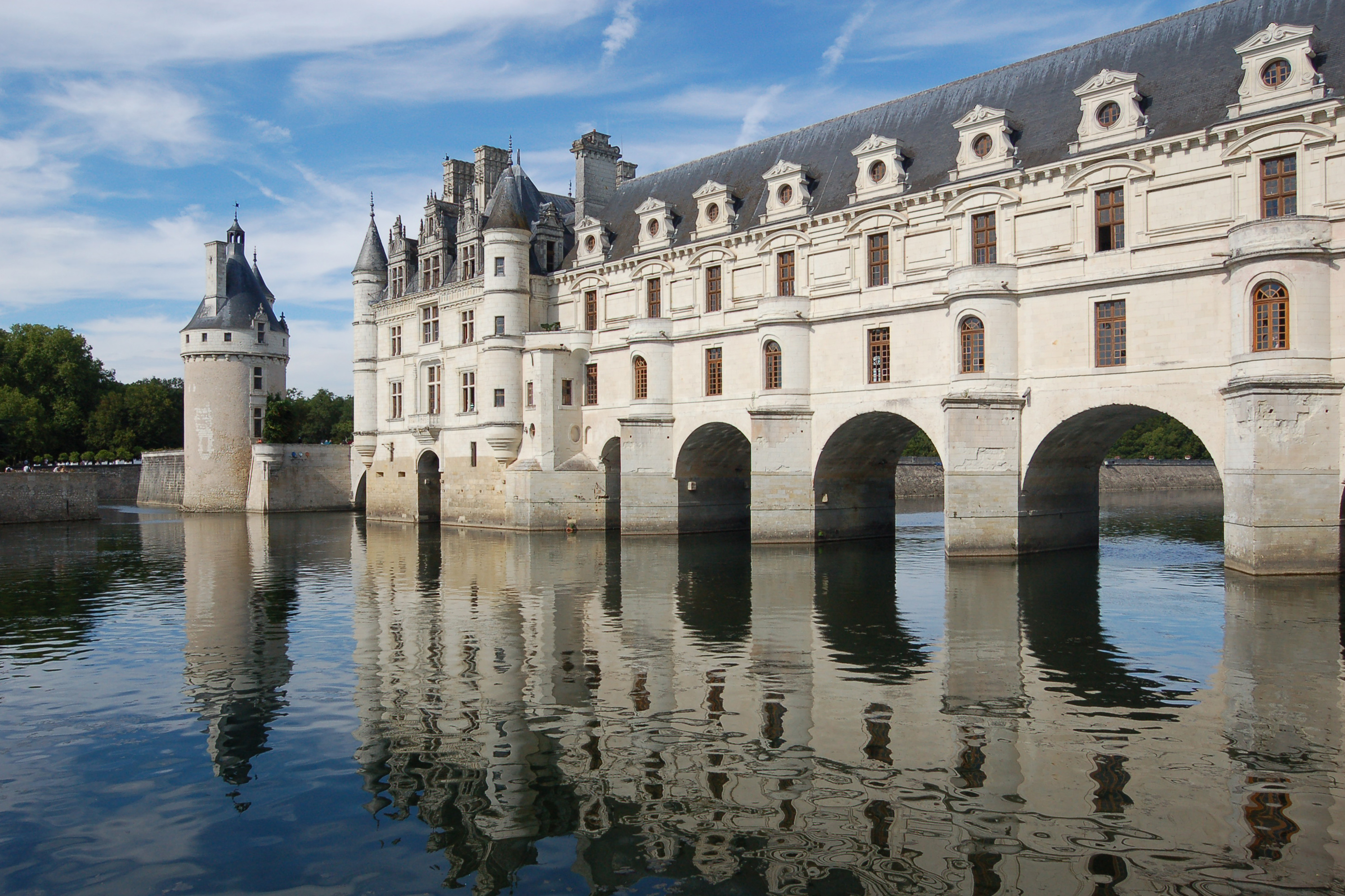 Chenonceau Castle, Indre-et-Loire, France.